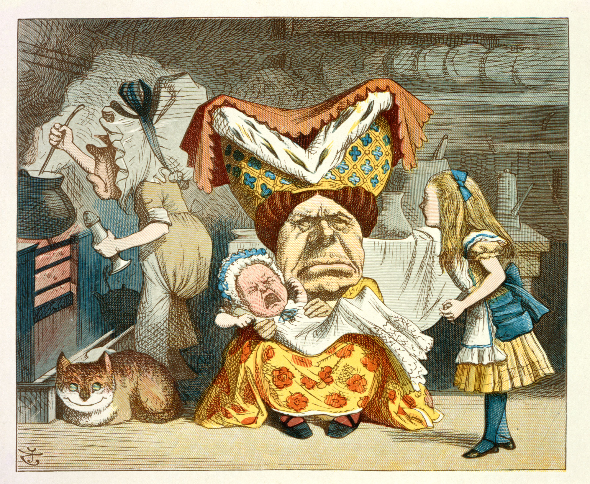 Illustration from The Nursery "Alice", containing twenty coloured enlargements from Tenniel's illustrations to "Alice's Adventures in Wonderland," with text adapted to nursery readers by Lewis Carroll. (London: Macmillan and Co. 1890) (Taken from British Library item Cup.410.g.74)